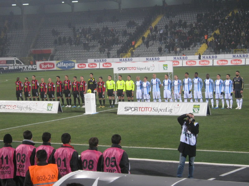 Turkish Super League match: Gençlerbirliği 0-0 Fenerbahçe